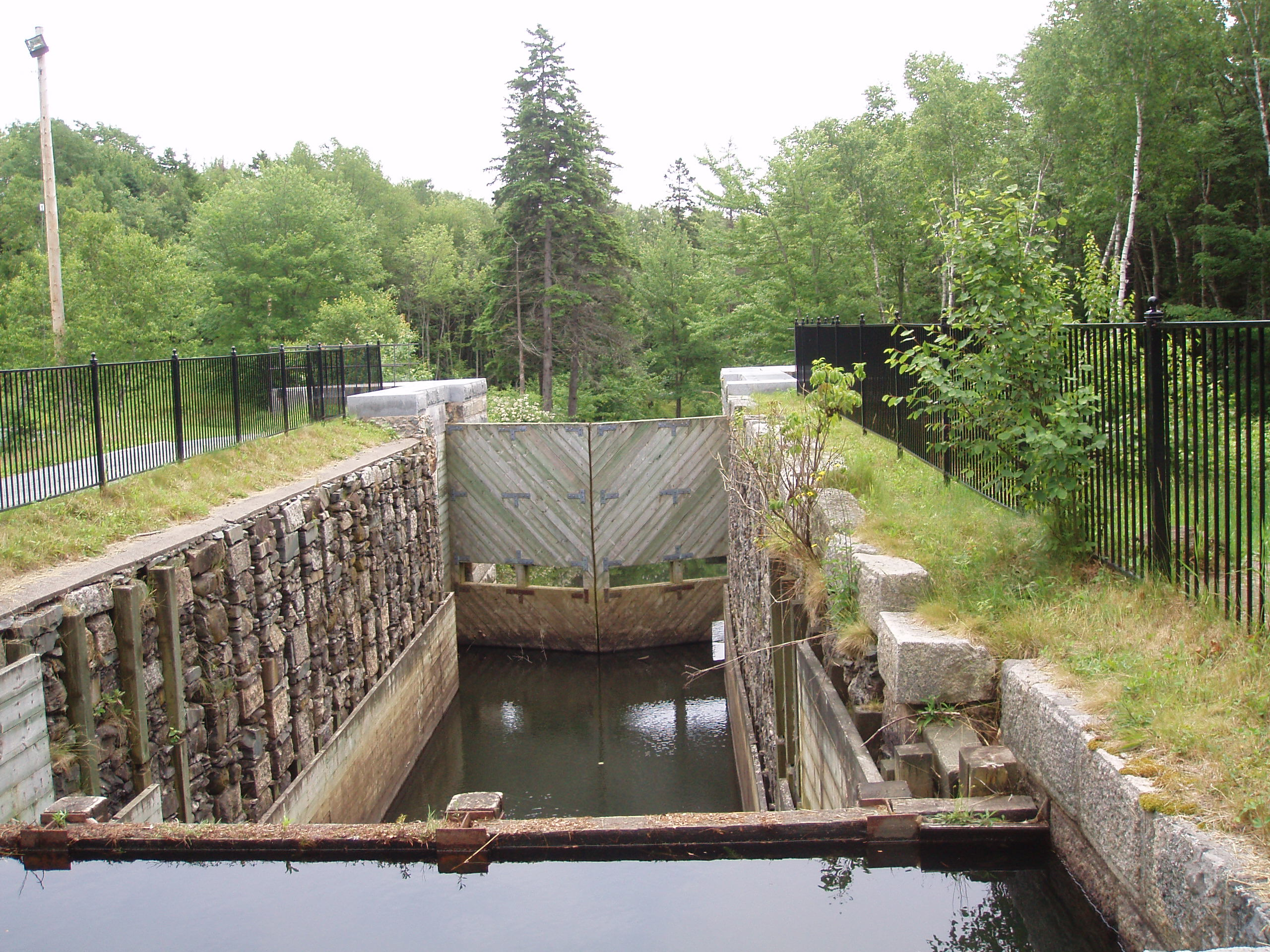 Dartmouth, NS